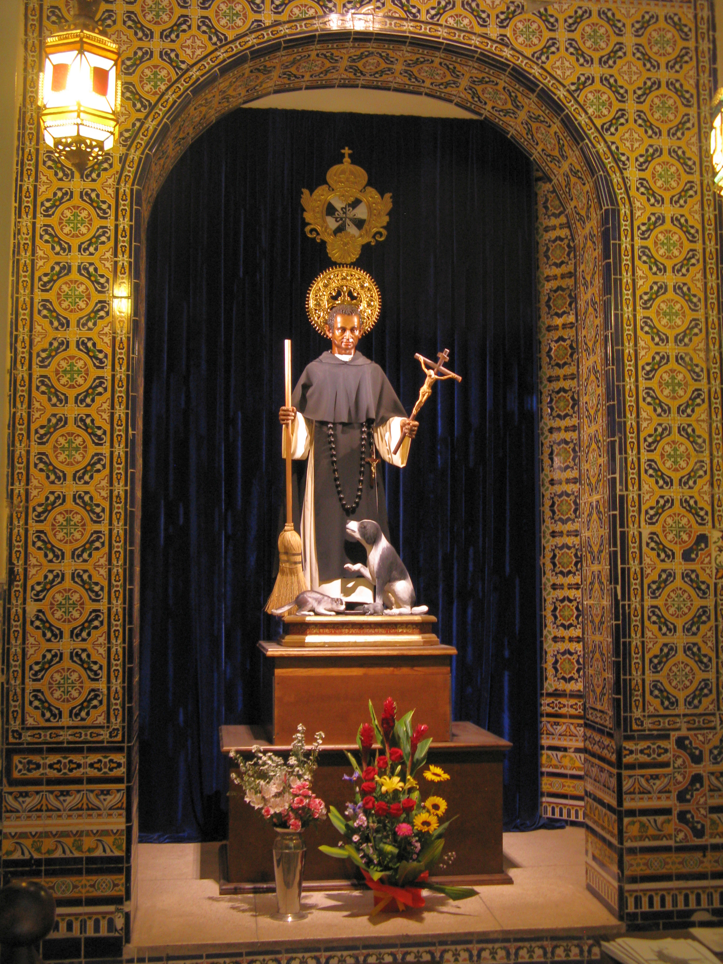 Figure of the Saint Martin de Porres in a little chapel in the house where he was born, in Lima, Peru